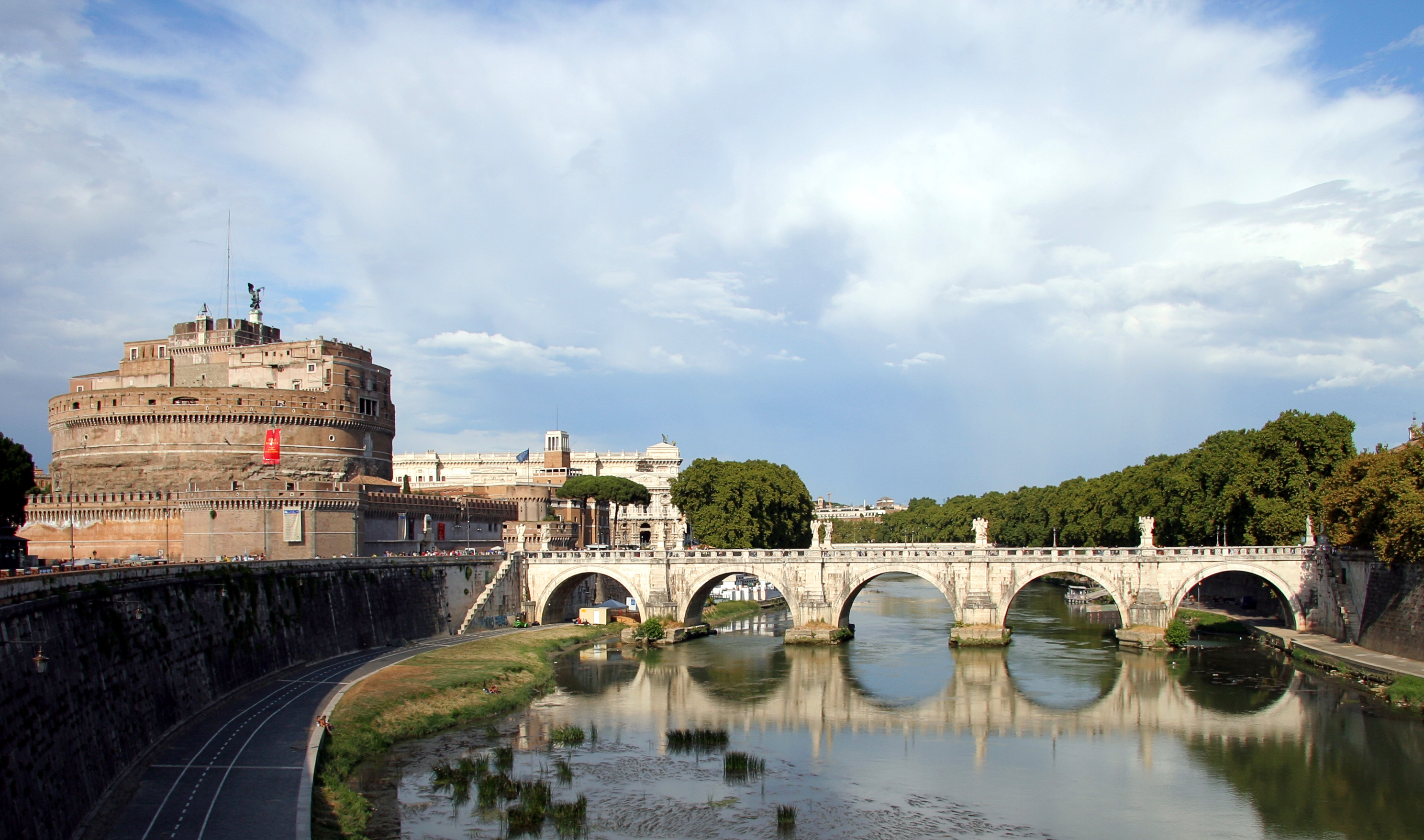 Castel Sant'Angelo/St. Angelo and Ponte Sant'Angelo (Rome)